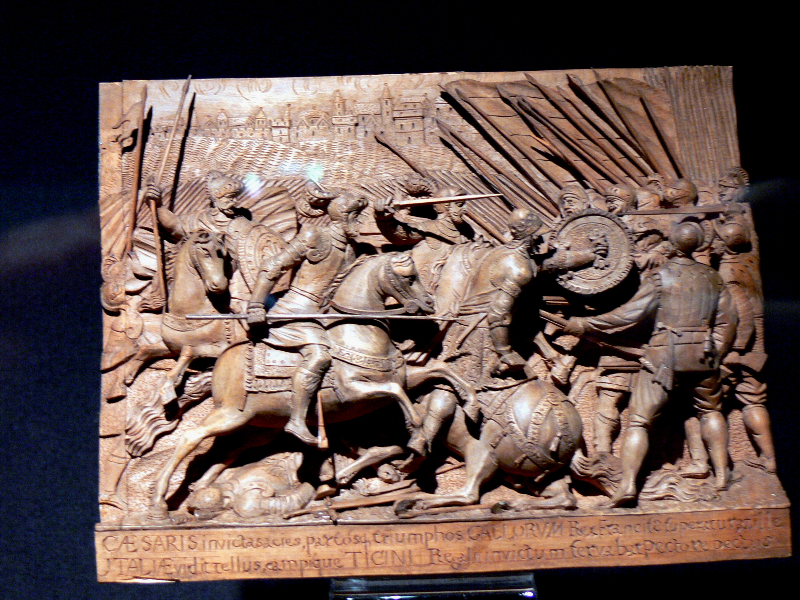 Relief showing the battle of Pavia ( 1525 ). Wood, German, 16th century ( Upper Austrian county museum Linz, Inv.-Nr. S 60 )